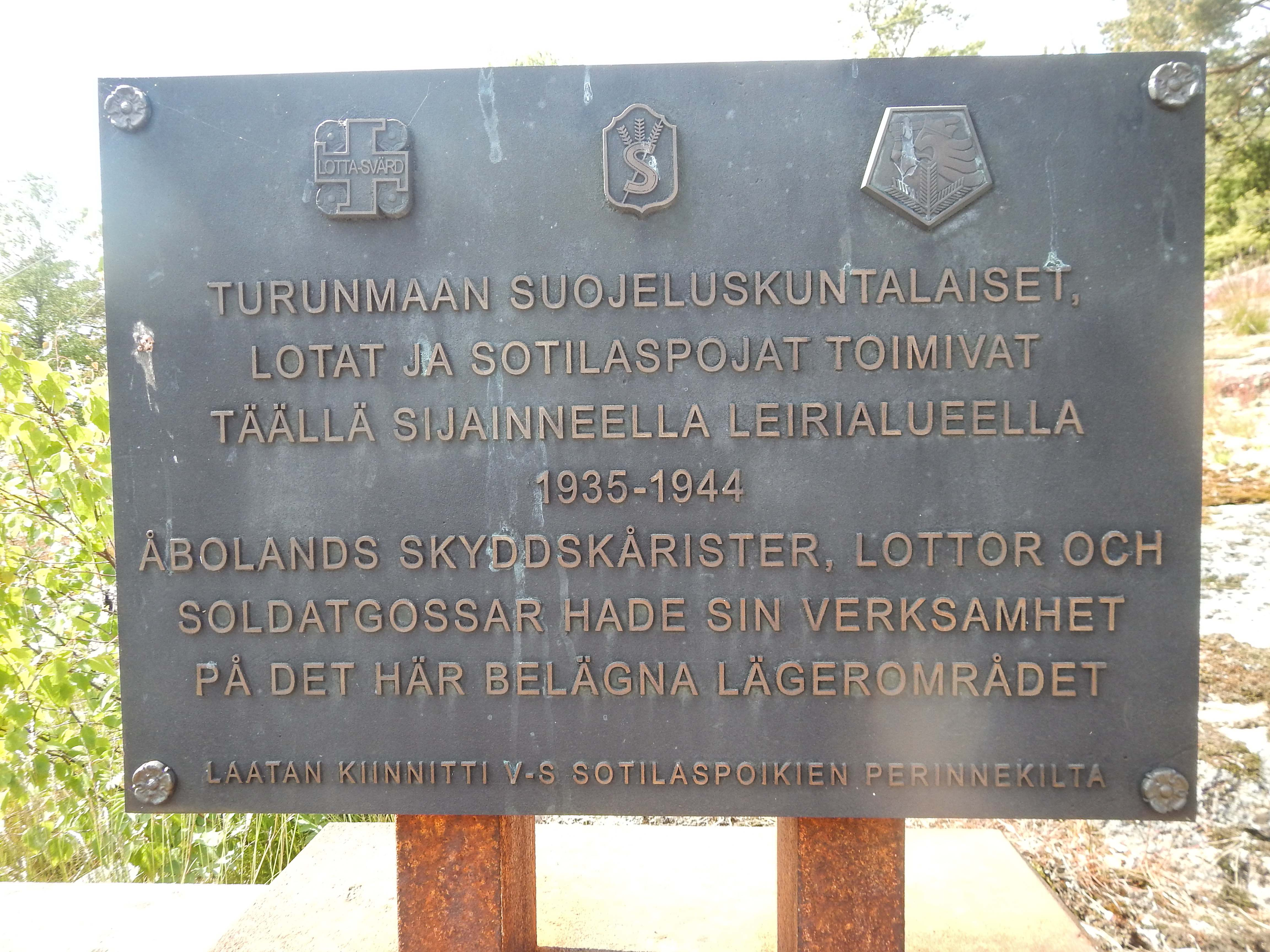 Plaquet to commemorate Skyddskår (White Guard of Finland) activities on Pensar 1935-44